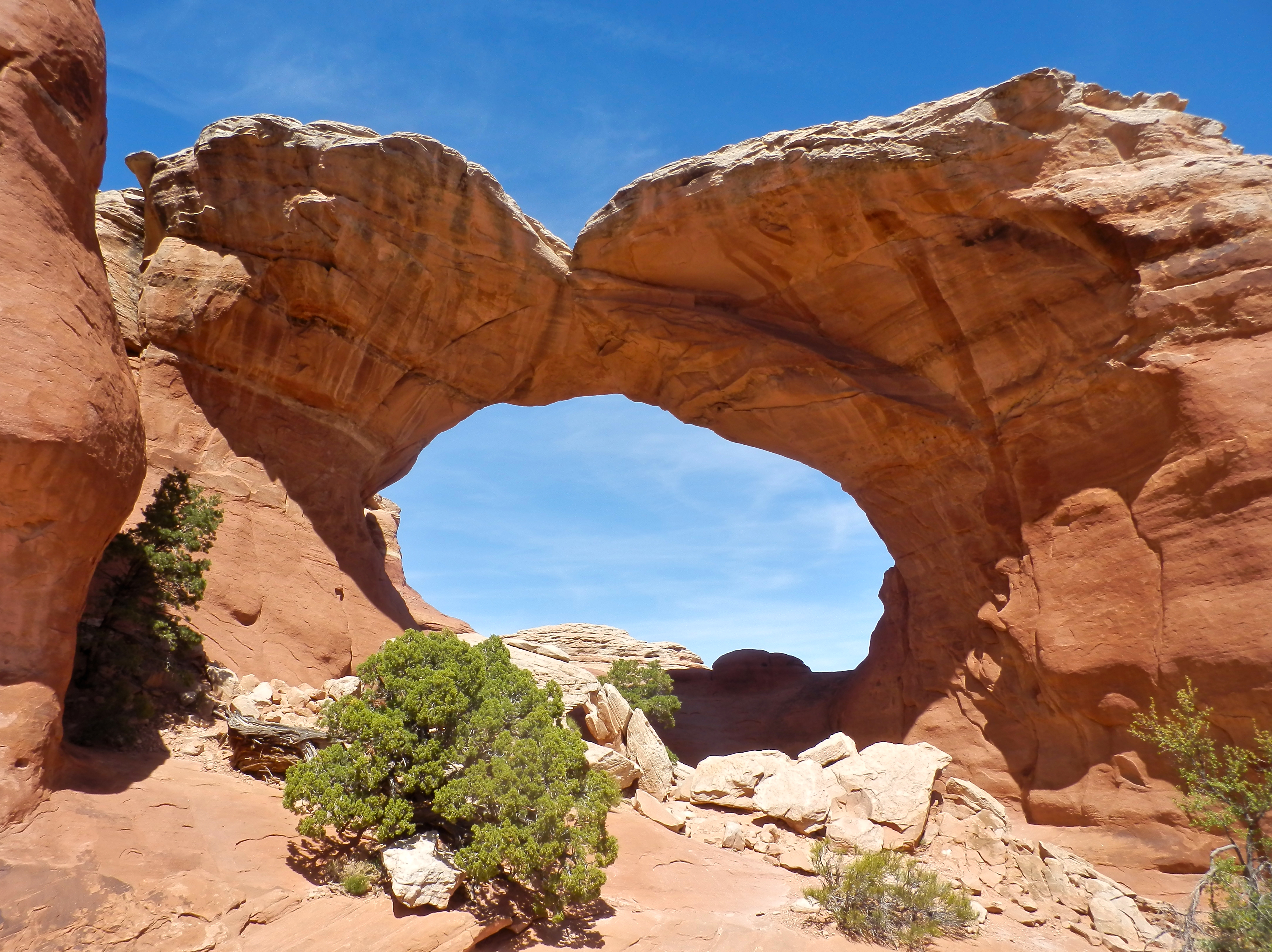 Arches Nationalpark Broken Arch